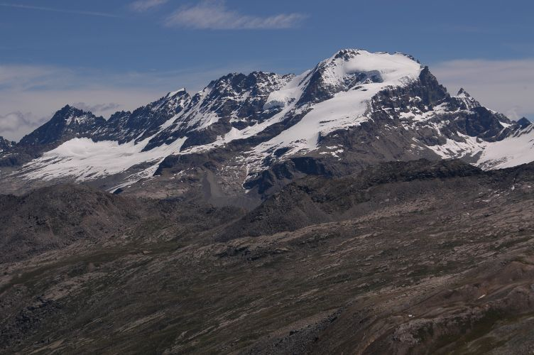 Gran Paradiso as seen from the west in Italy.